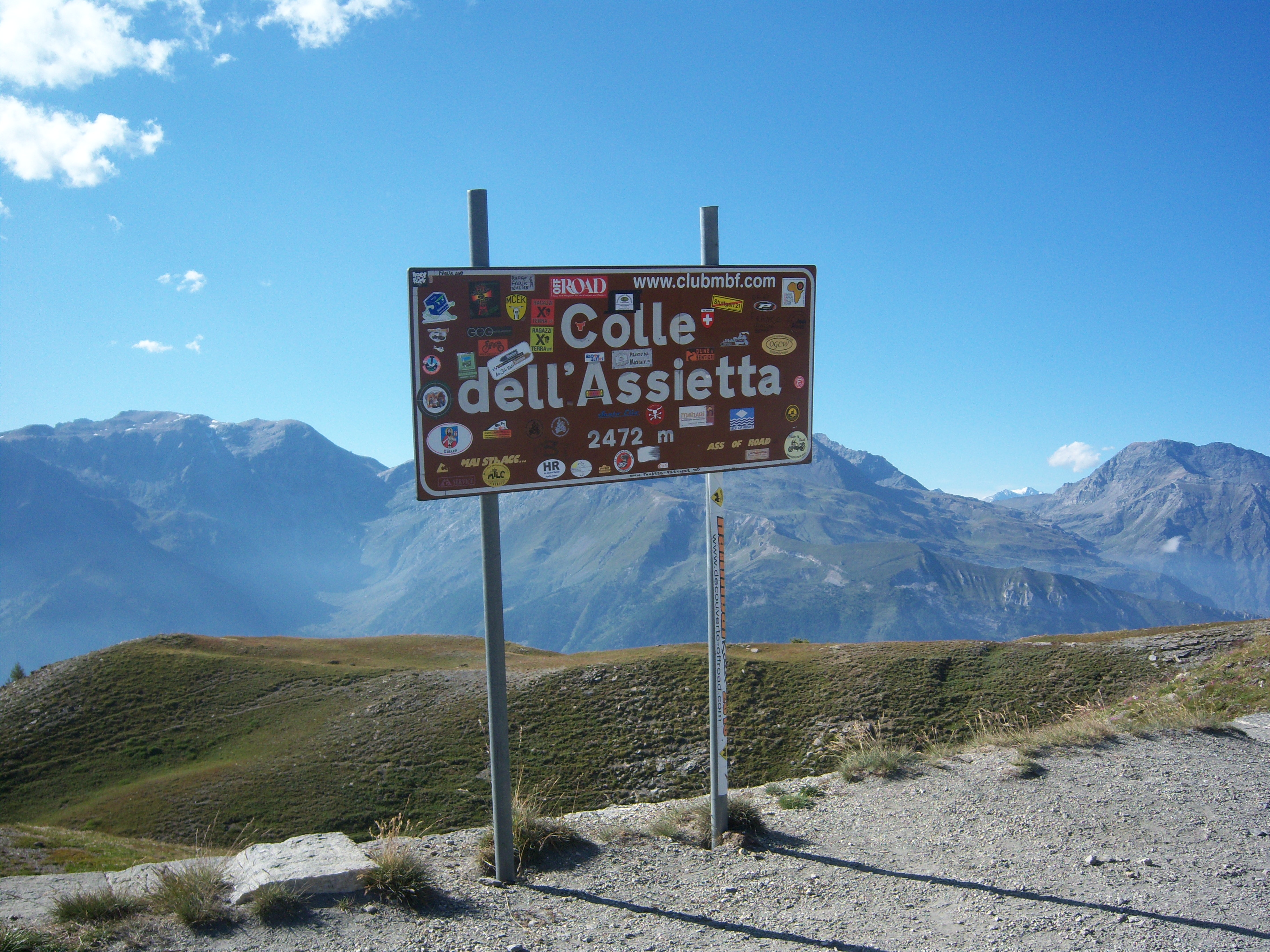 Road sign of the Assietta's pass